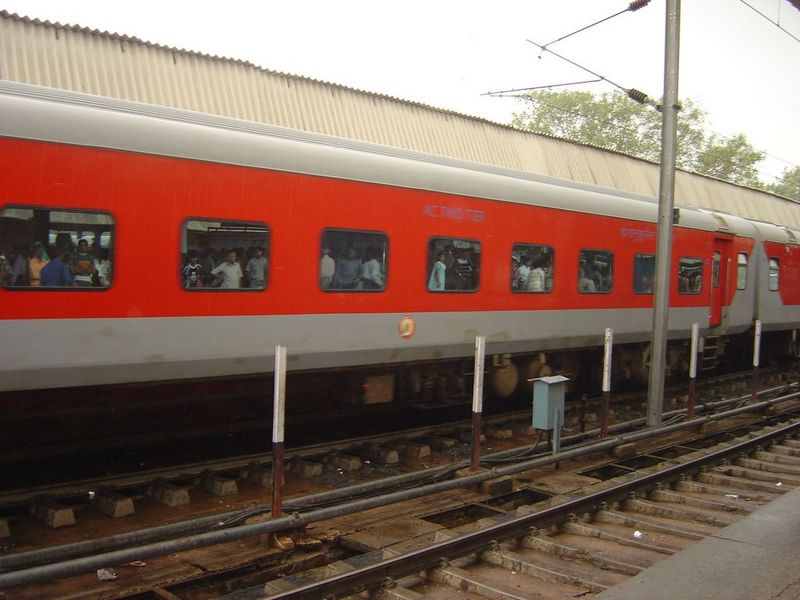 New Delhi—Mumbai Rajdhani AC 2 tier coach in new livery